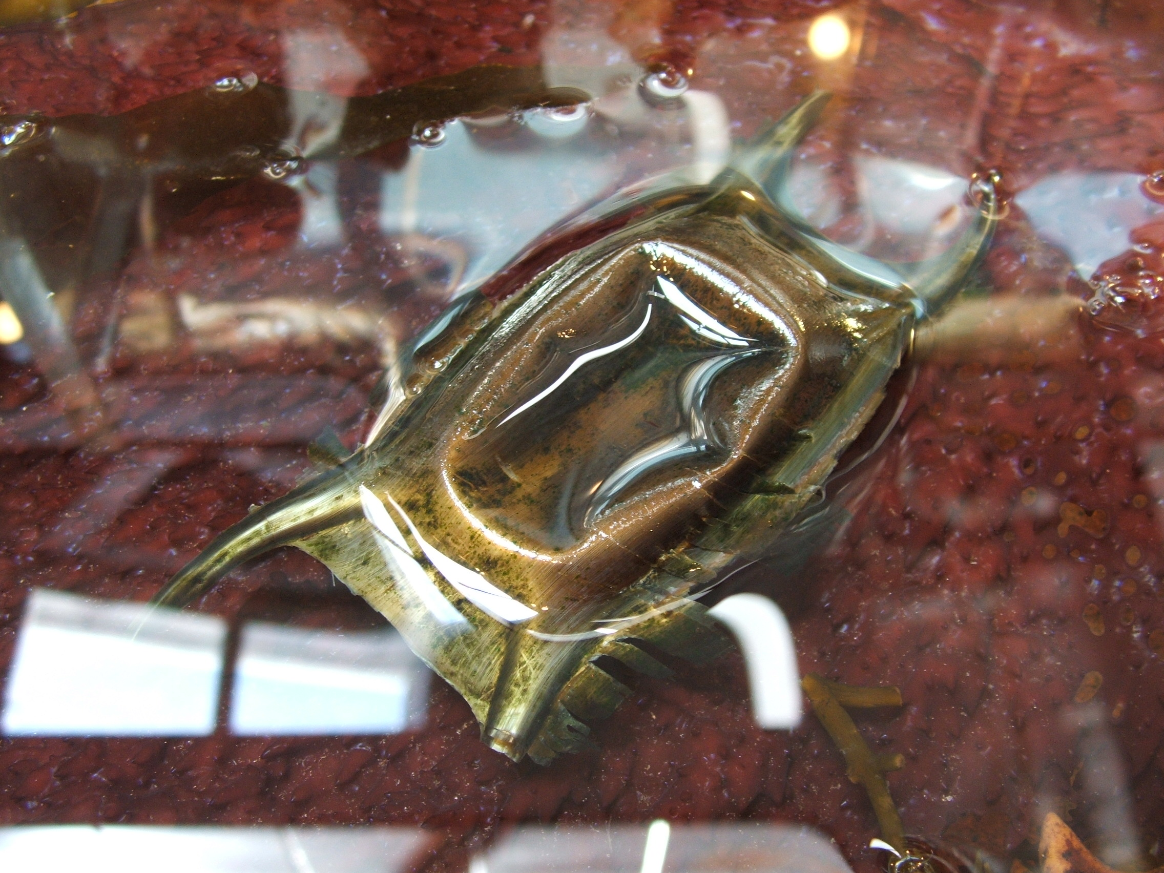 Skate (Beringraja binoculata - synonym: Raja binoculata) egg case in Monterey Bay Aquarium